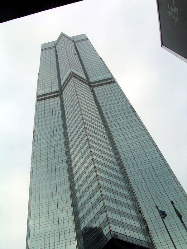 The Center from below